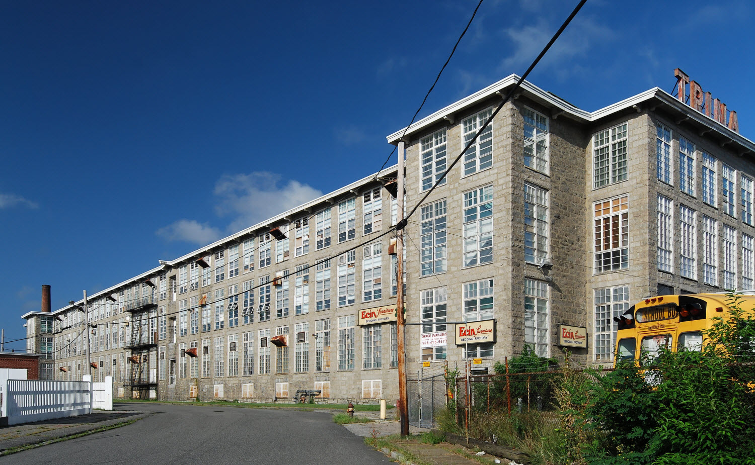 Sagamore Mill Number 3, Fall River, Massachusetts